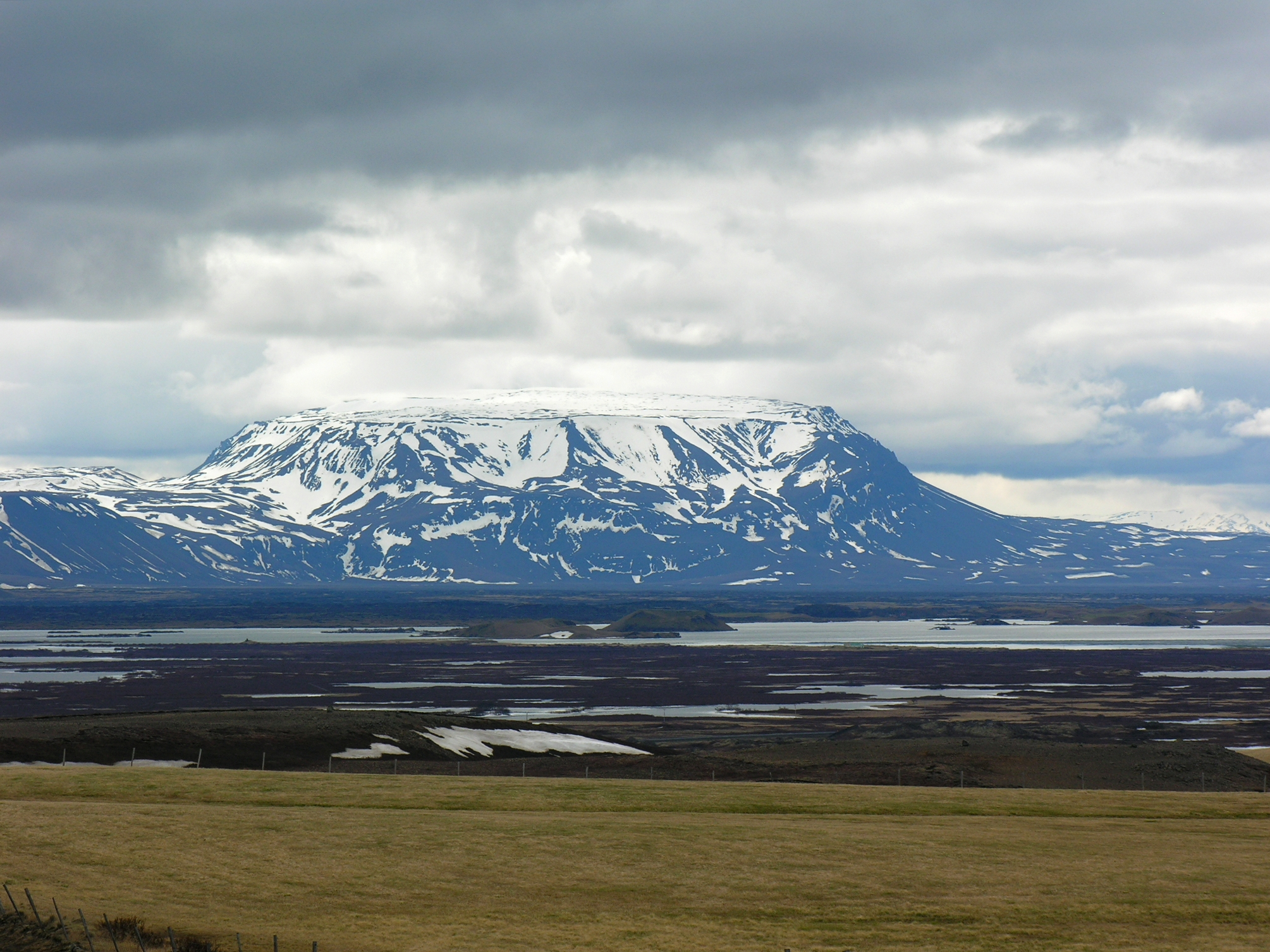 Iceland, views around Lake Mývatn